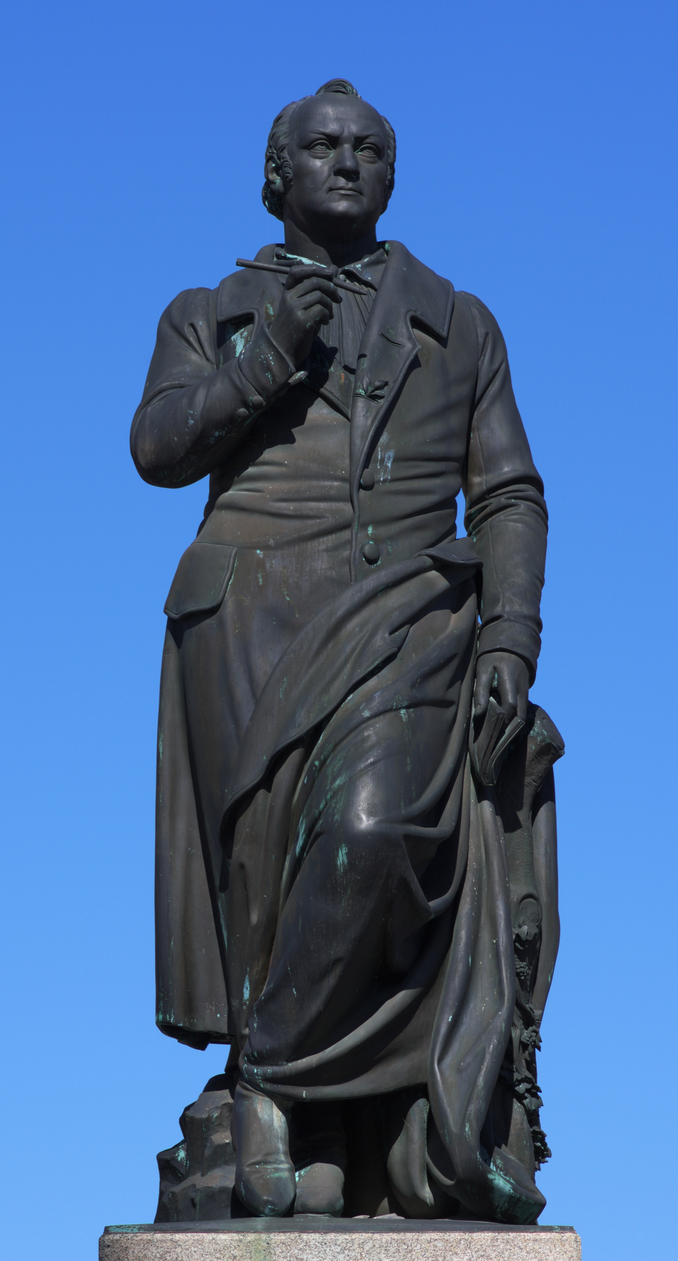 The Jean Paul memorial in Bayreuth, Germany. Created by Ludwig von Schwanthaler (1802-1848), it was publically unveiled on 14 November 1841.